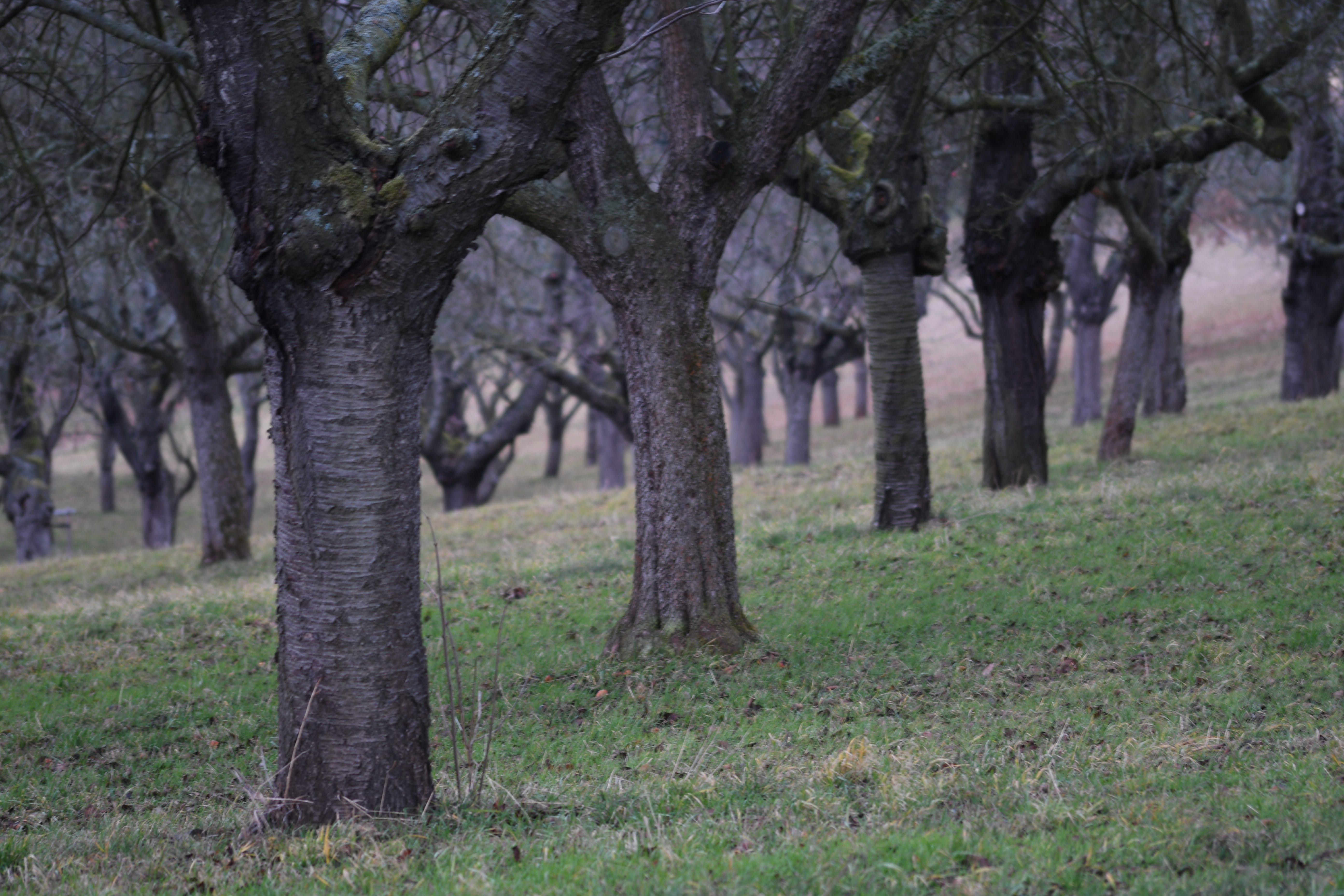 Meadow orchards in Gombsen (Saxony)